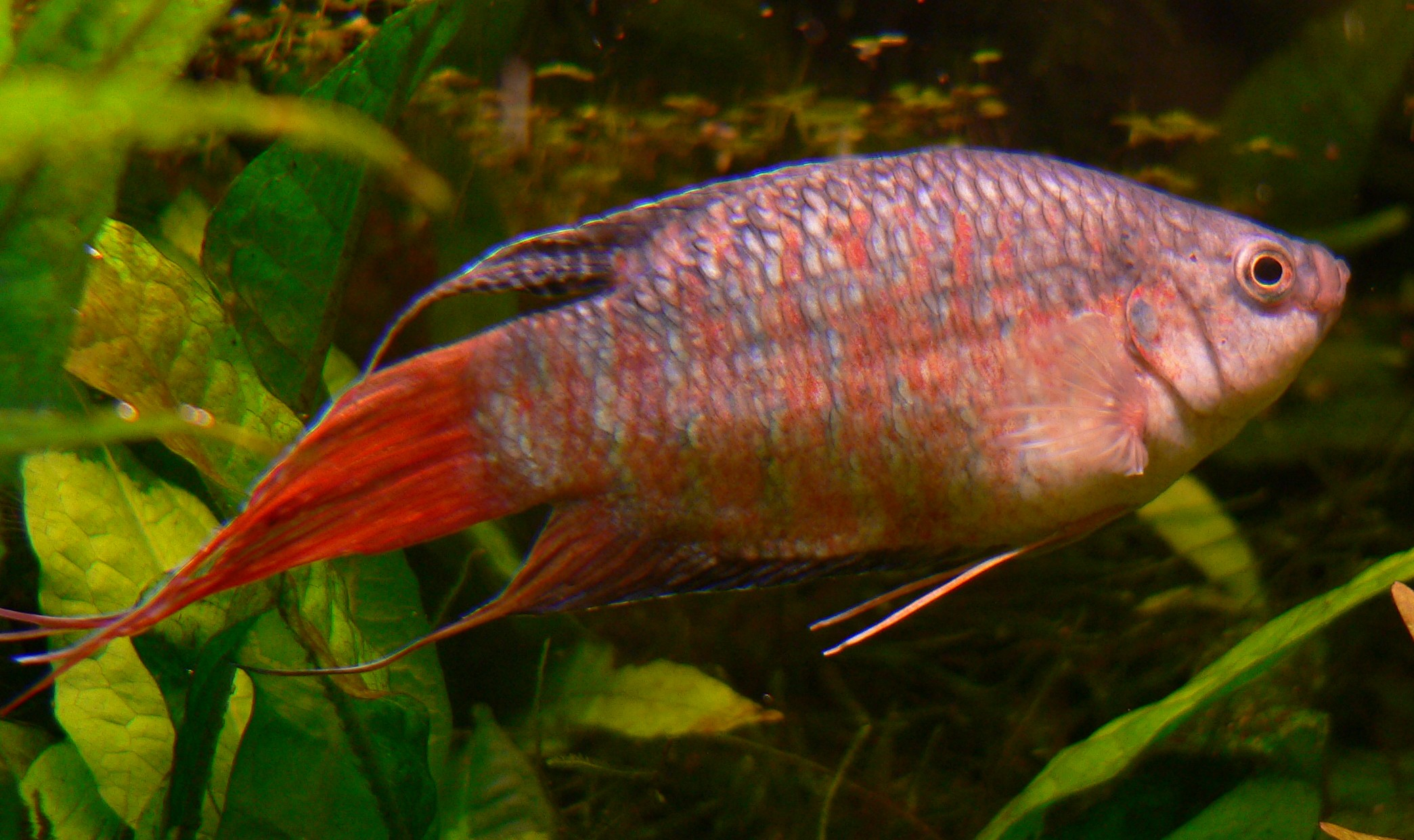 Nov2005 Photo taken by user Benutzer:BS Thurner Hof